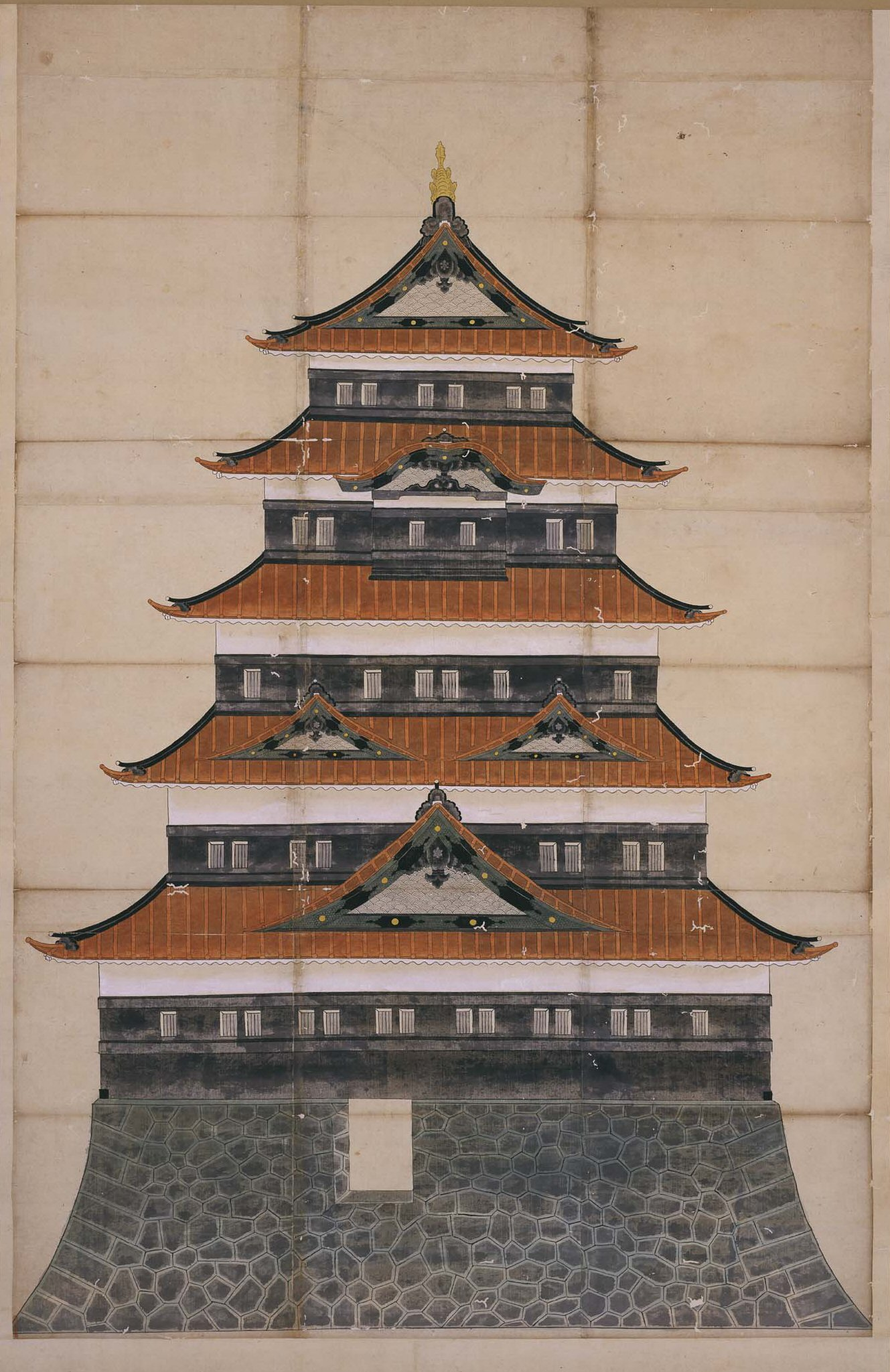 Main donjon of Edo Castle, side view.